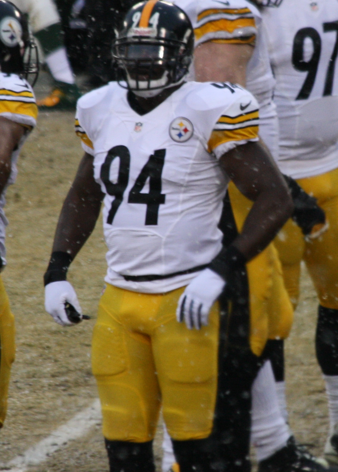 Pittsburgh Steelers player Lawrence Timmons in the huddle before a play.